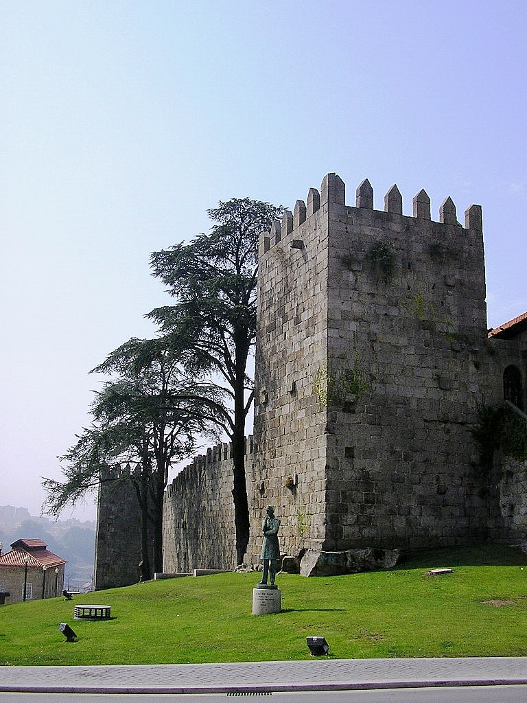 "Muralhas Fernandinas", medieval city walls in Porto, Portugal.